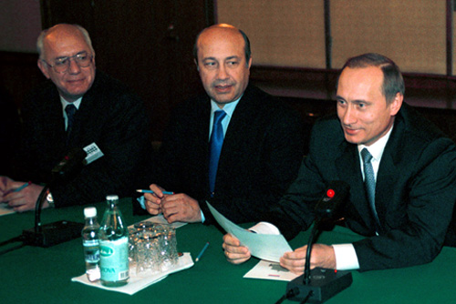 The President Hotel, Moscow. Acting President Vladimir Putin meeting with German businessmen and bankers. Vladimir Putin with Russian Foreign Minister Igor Ivanov (centre) and Economics Minister Andrei Shapovalyants.